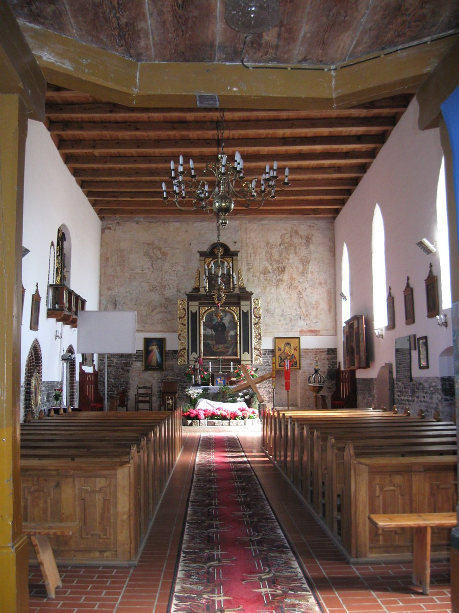 Church in Niedźwiedzica